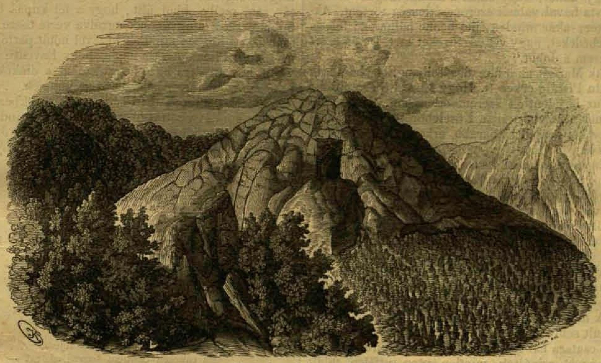 Entrance of Szelim Cave in 1856.